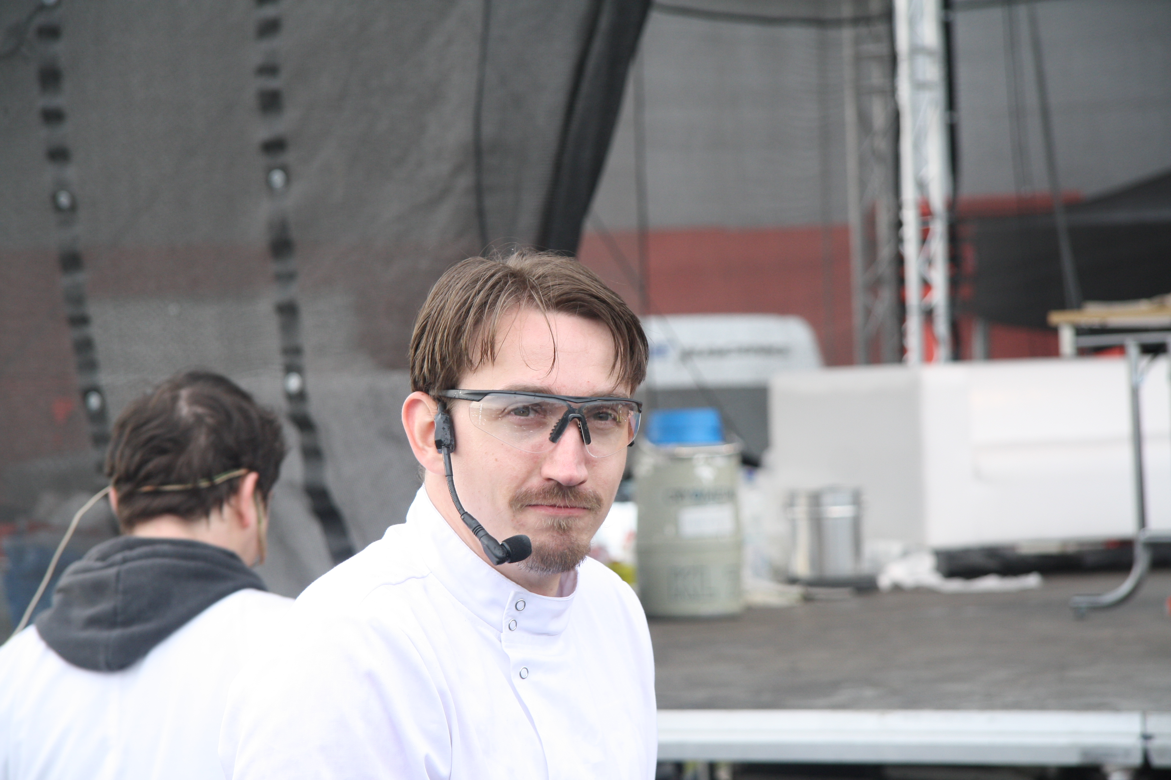 Martin Rota at Utubering 2017 in Prague.